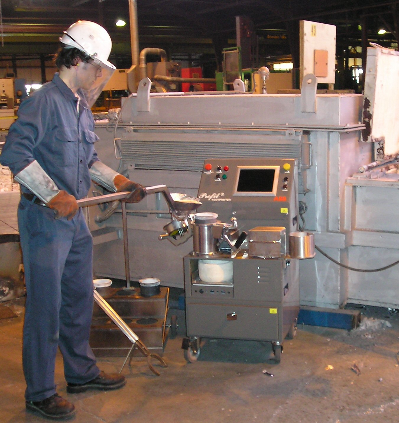 Pressure Filtration Melt Cleanliness Analyzer: Taking a Prefil sample for measurement of inclusions in liquid aluminium